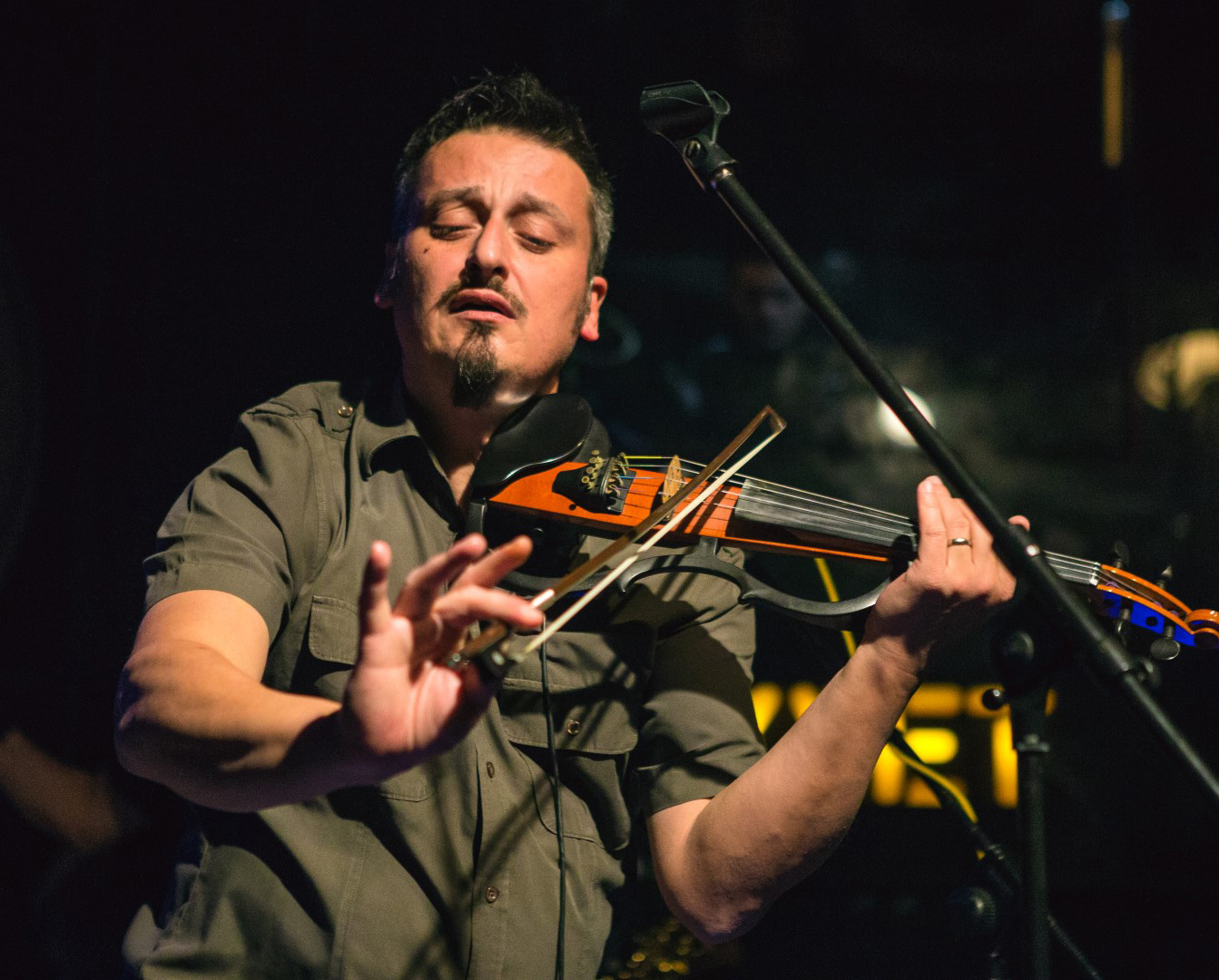 Robert Boldižar "Robi" is Croatian violinist and music pedagogue. He is a current member of rock band Zabranjeno Pušenje.